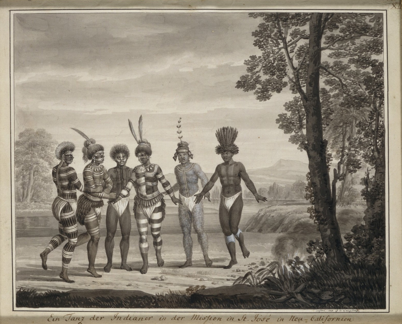 Dance of (Ohlone) Indians at Mission in San Jose, New California